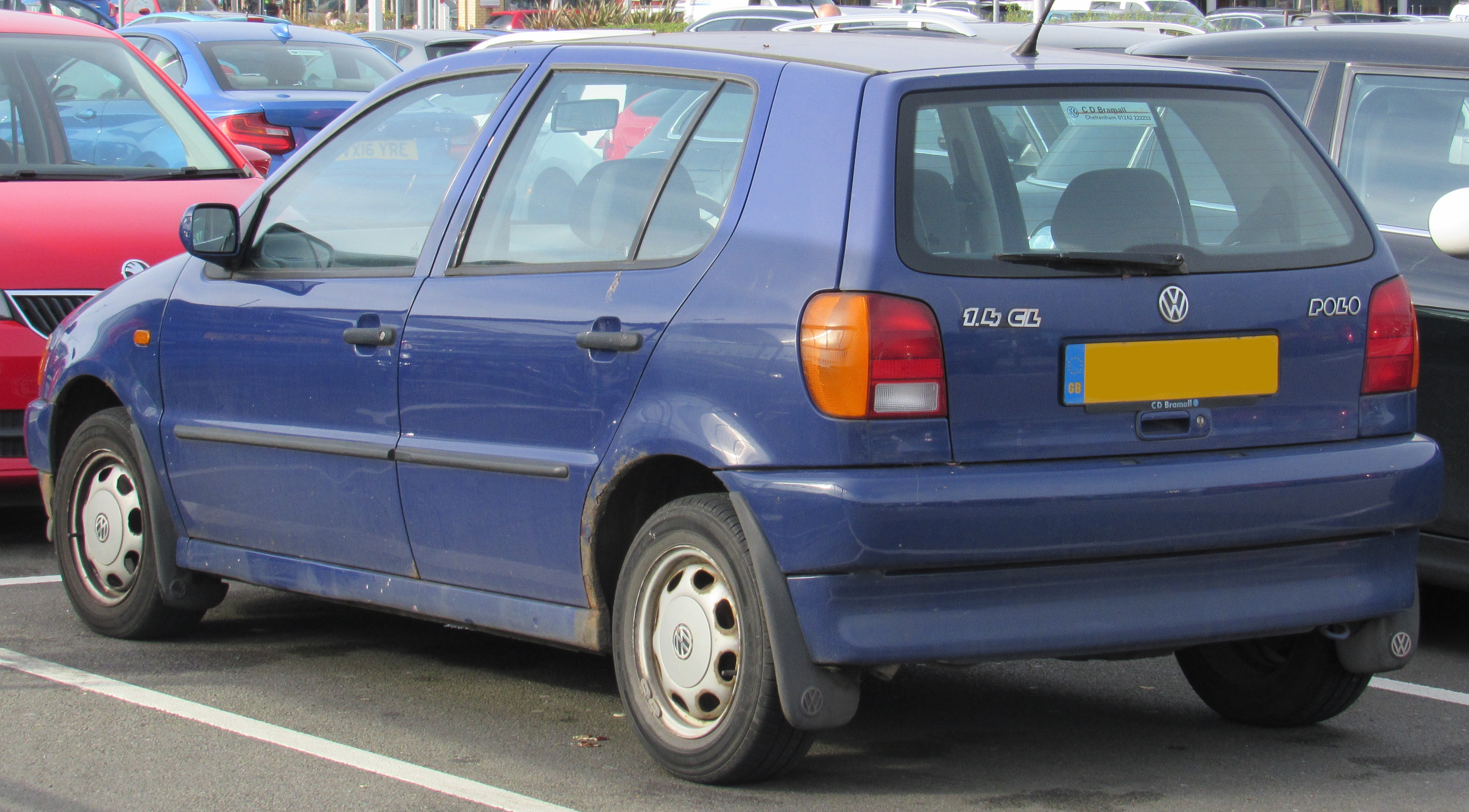 1997 Volkswagen Polo 1.4 CL Automatic Taken in Leamington Spa